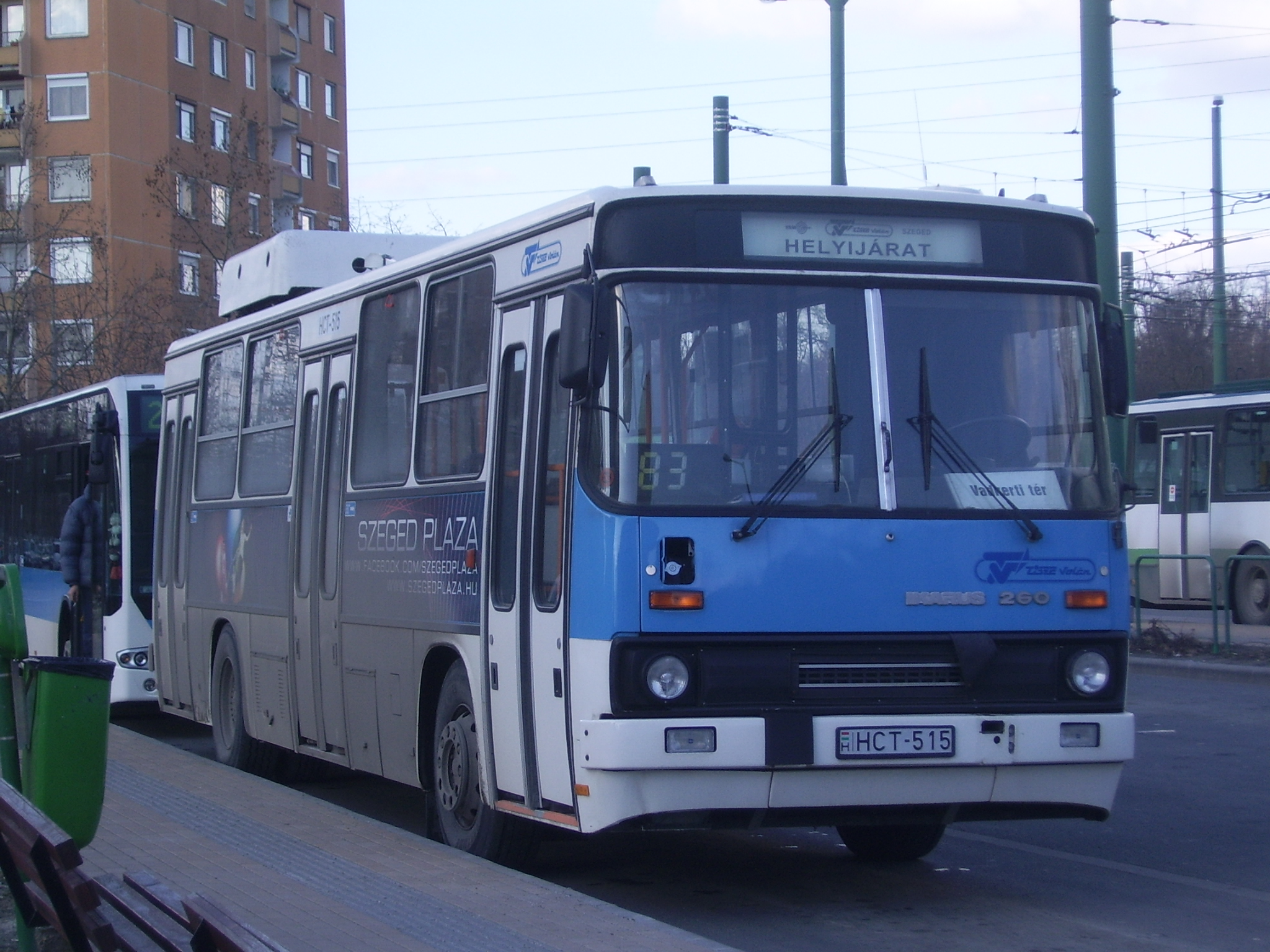 Enddays of the bus line 83 in Szeged. The service few days later was replaced by the new tram line 2.